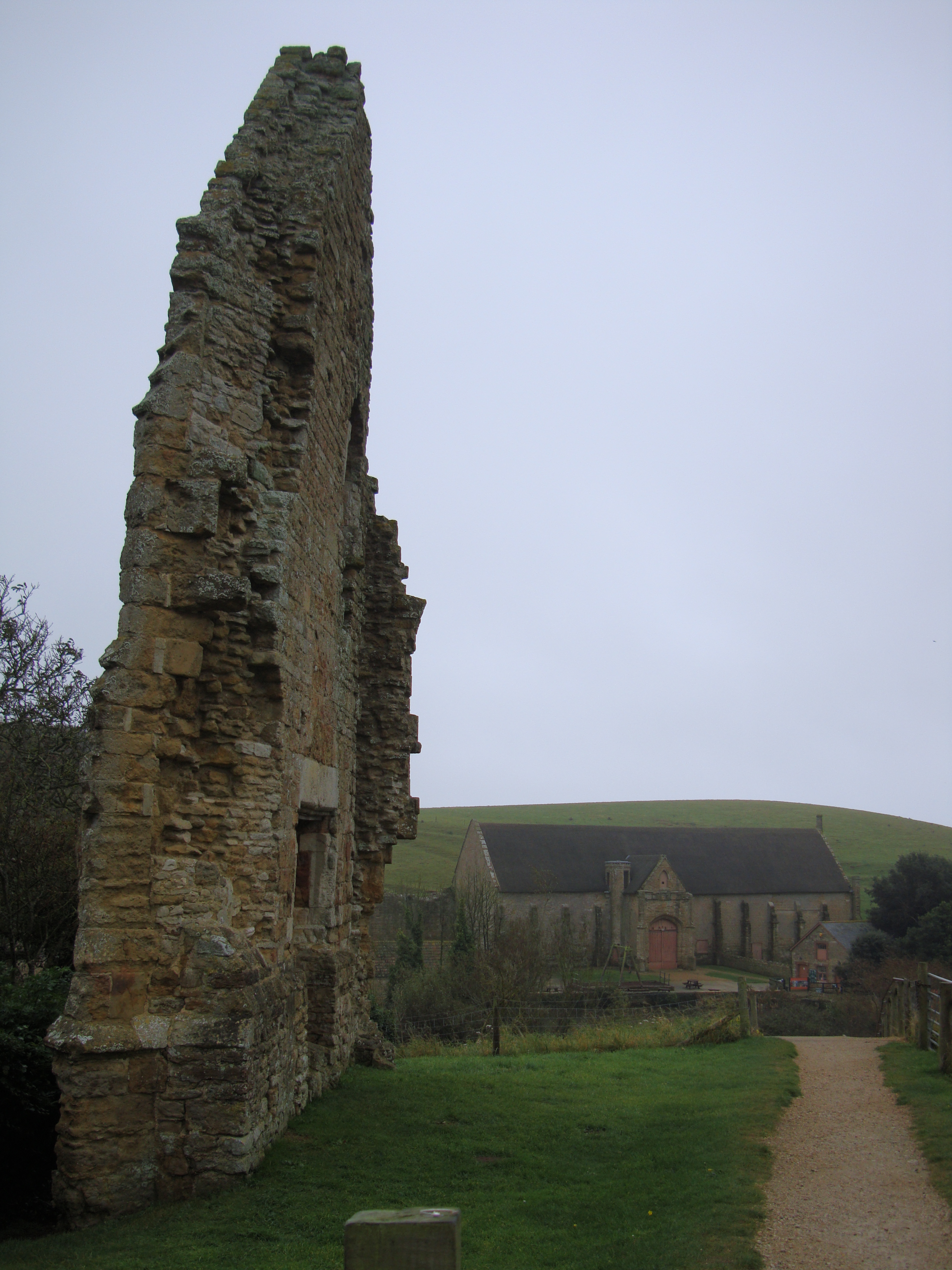 Photograph of the remains of Abbotsbury Abbey and abbey barn, Dorset